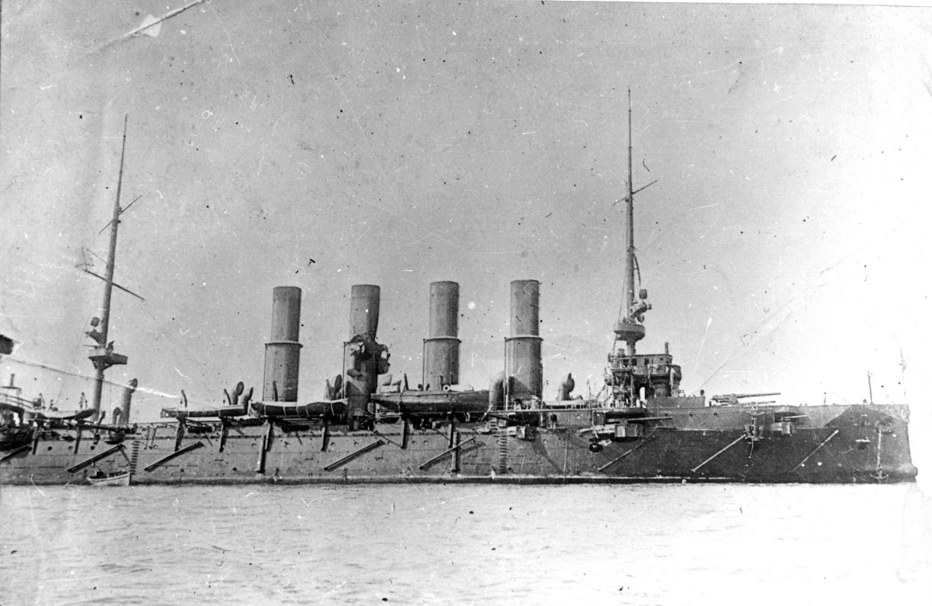 Imperial Russian cruiser Vaiag, 27 January 1904.